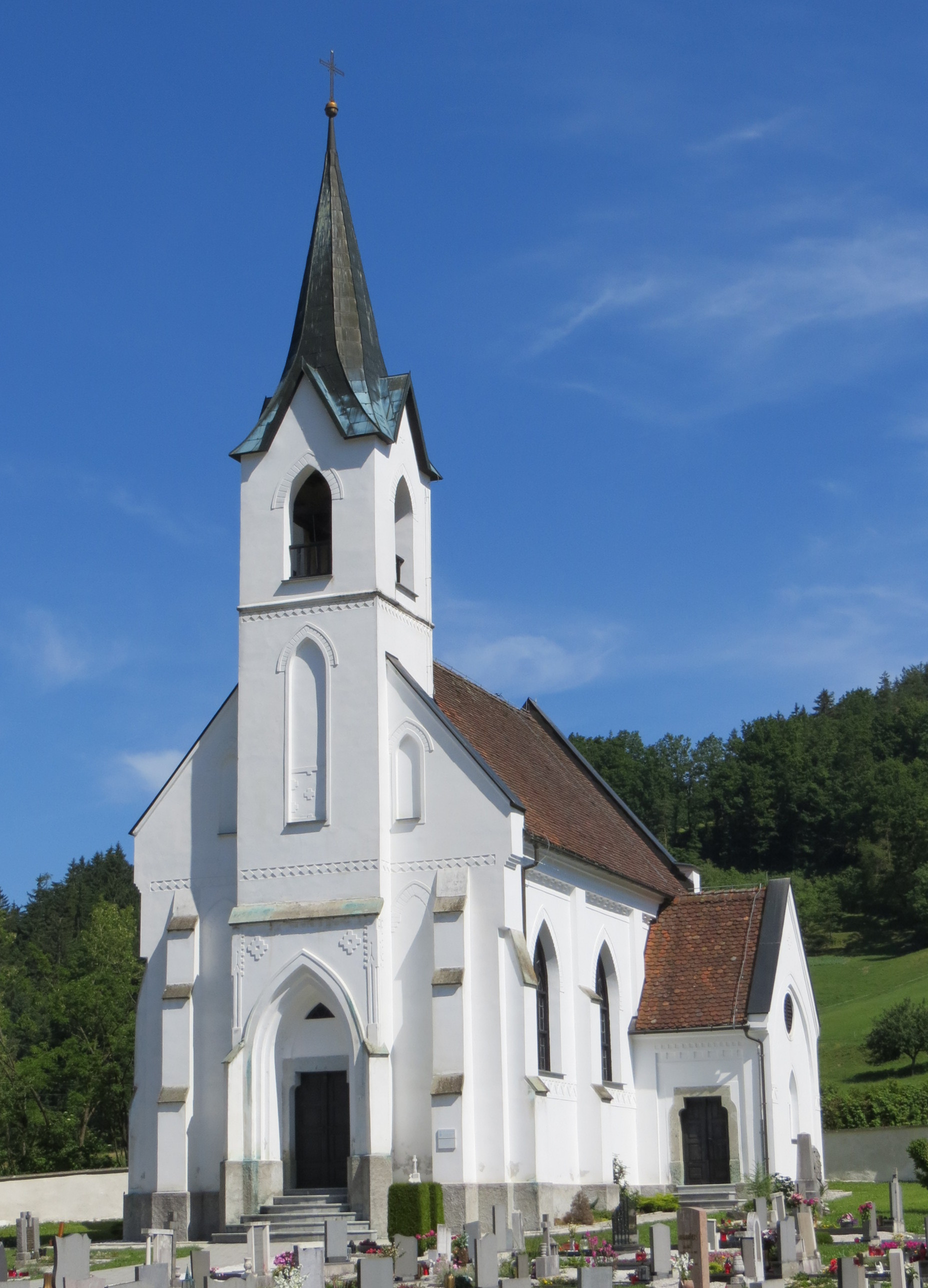 Saint Mary Magdalene Church in Gornji Grad, Municipality of Gornji Grad, Slovenia